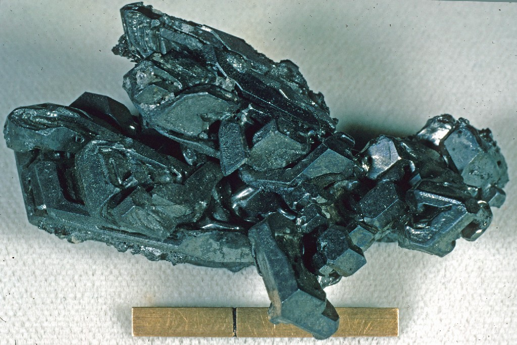 Acanthite Locality: Arizpe, Mun. de Arizpe, Sonora, Mexico Specimen from the Richard Gaines collection - Scale at bottom of image is one inch with a rule at one cm.